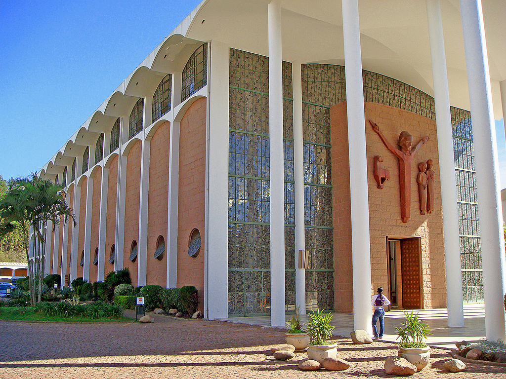 Exterior view of the church Saint Paul Apostle, Blumenau, SC, Brazil